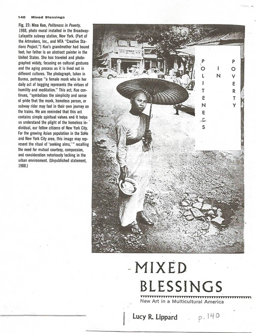 p. 140 Mixed Blessing